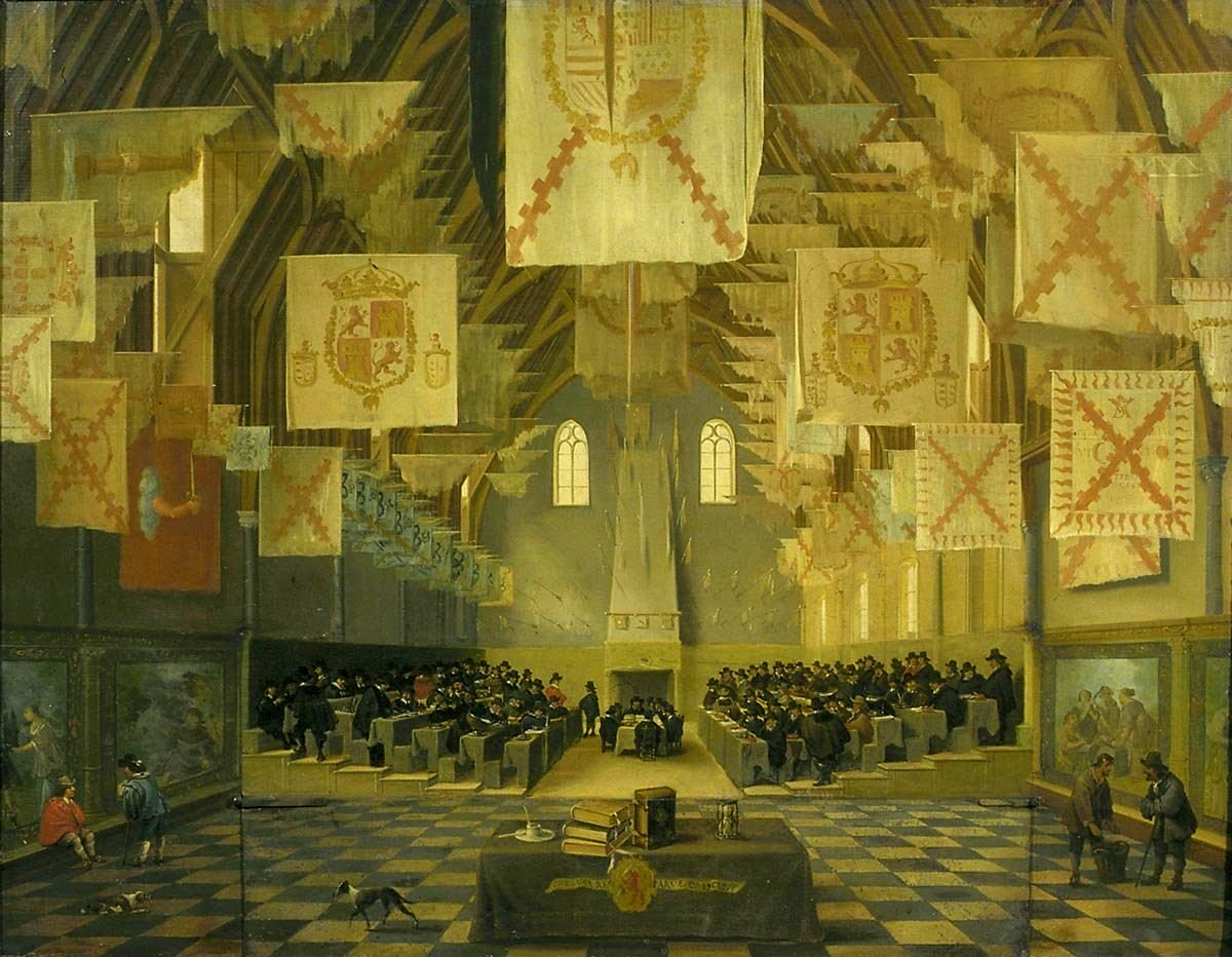 Great Assembly of the States-General in 1651. The painting consists of a 52 × 66 cm wooden panel with attached to it a smaller 9 × 42 cm copper plate. When this plate is raised the view on the Great Assembly is obscured by a wall of paintings (see File:Bartholomeus van Bassen - The Great Hall of the Binnenhof in The Hague - WGA6277.jpg).